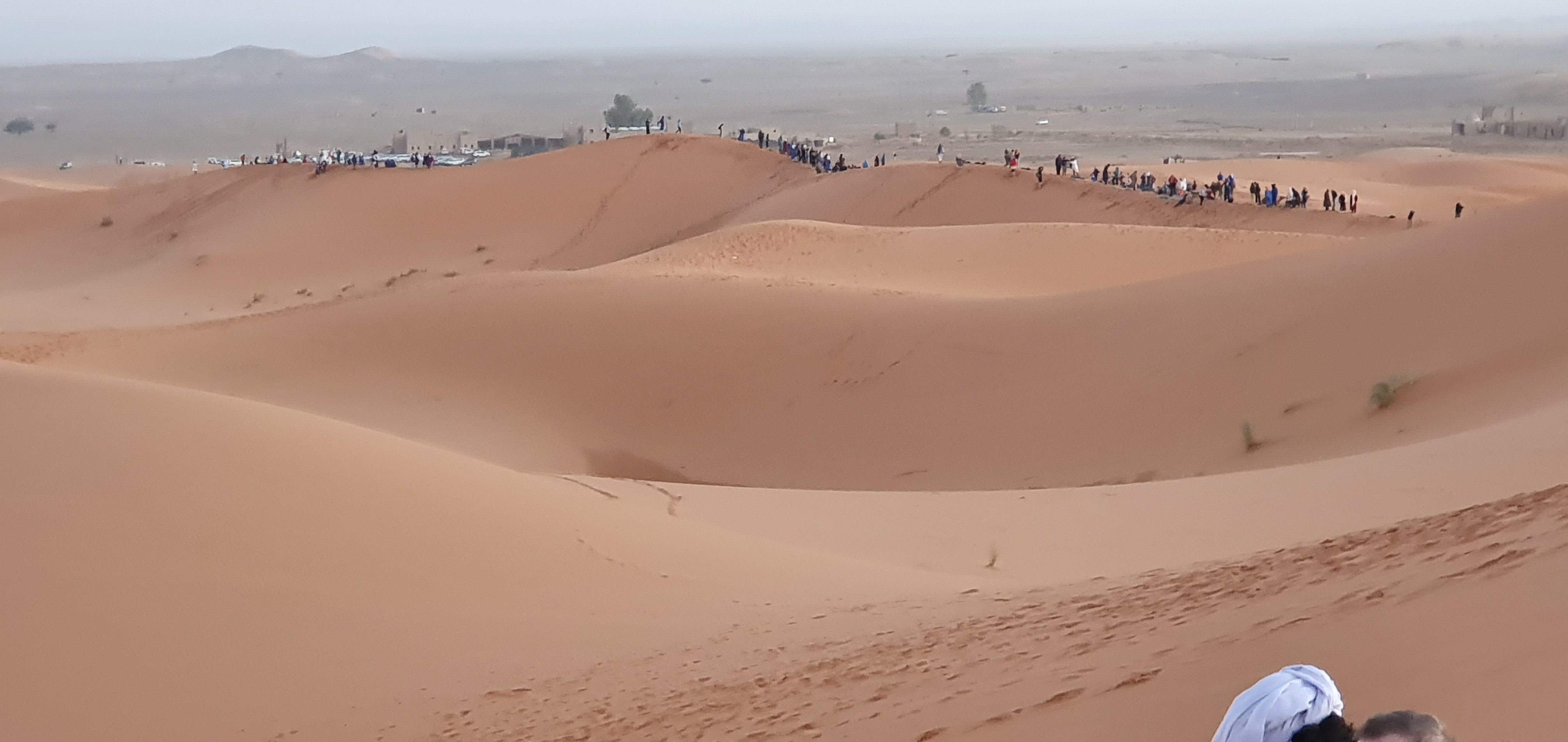 Dunes of Morocco, Merzouga at Dawn